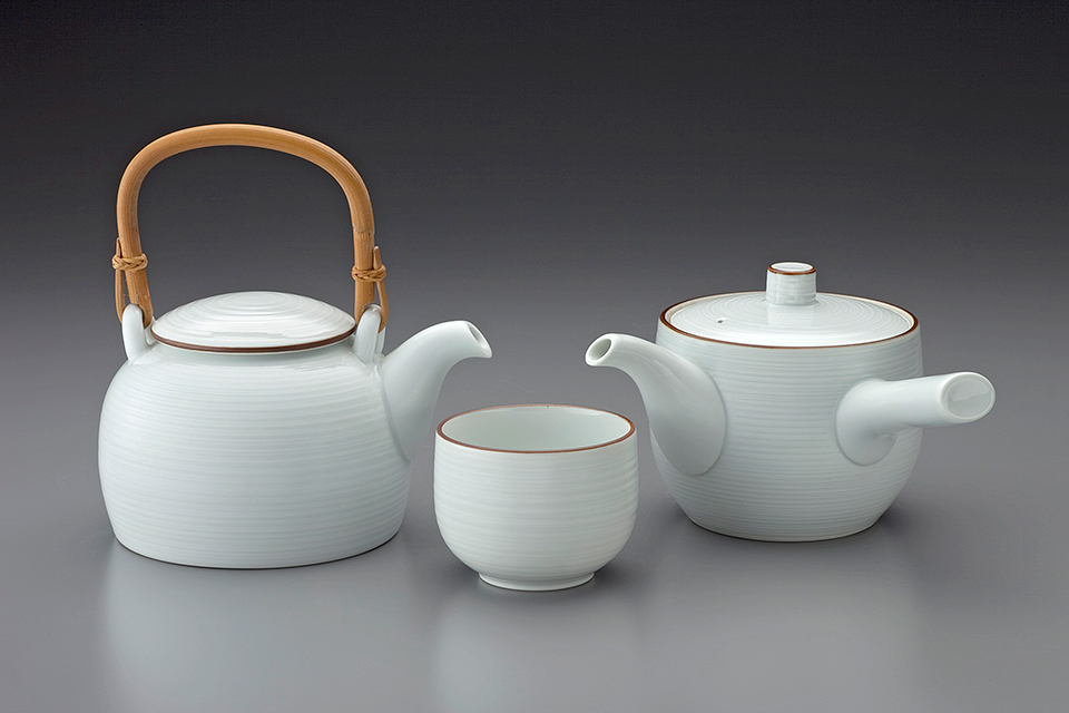 White Strings Ware series / Tea Set (1971), Masahiro Mori (ceramic designer) designed